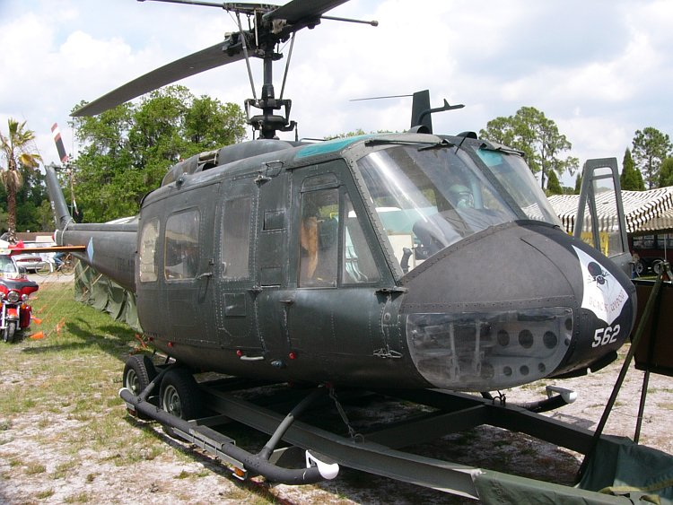 an ex-US Army UH-1H at Sun 'n Fun April 2006